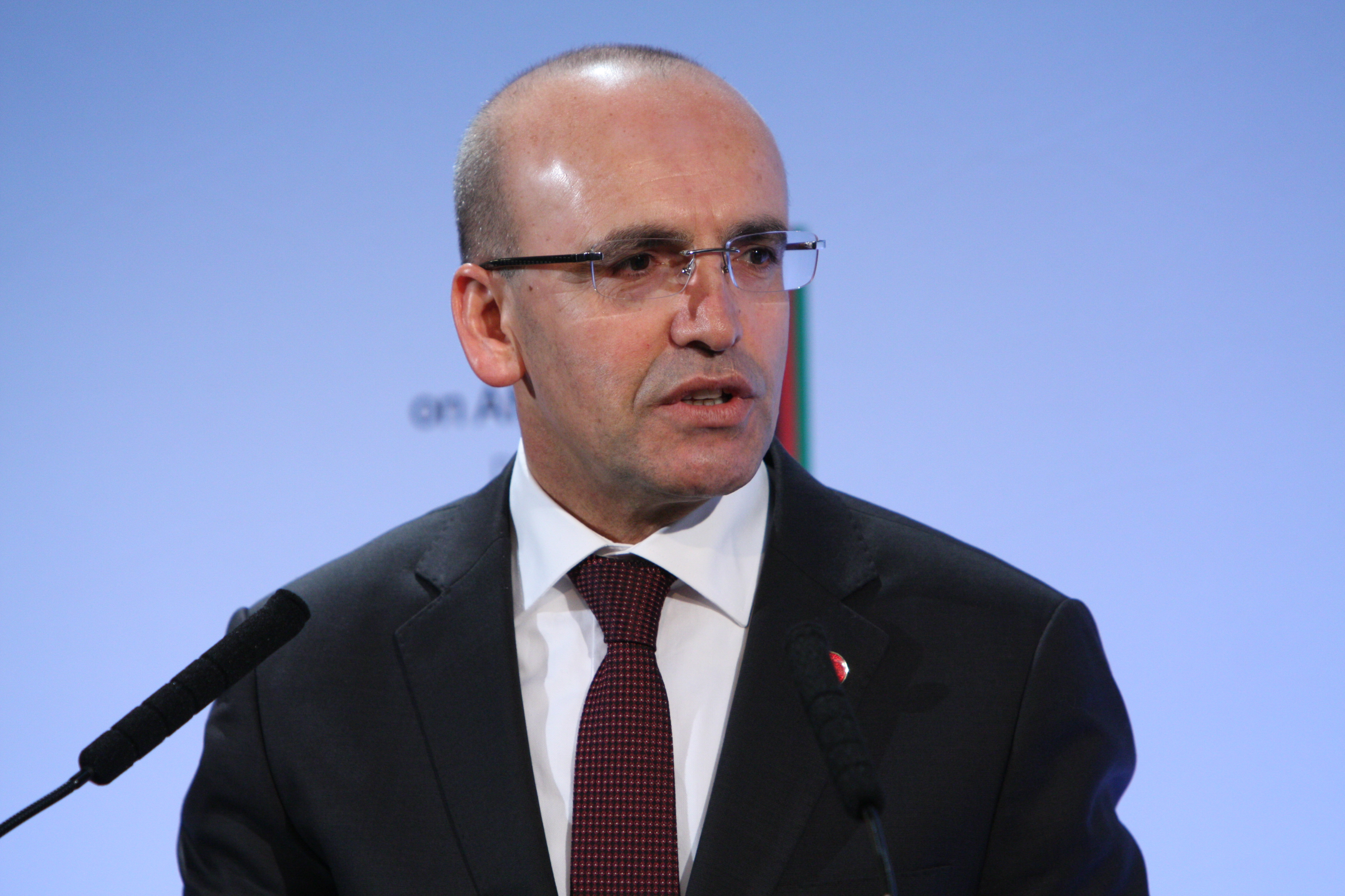 The London Conference on Afghanistan takes place on 4 December 2014, co-hosted by the governments of the UK and Afghanistan. The Conference brings together the Afghan government and international community in support of a secure and peaceful future for Afghanistan. Find out more at: Picture: Patrick Tsui/FCO Free-to-use photo This image is posted under a Creative Commons - Attribution Licence, in accordance with the Open Government Licence. You are free to embed, download or otherwise re-use it, as long as you credit the source as ‘Patrick Tsui/FCO’.